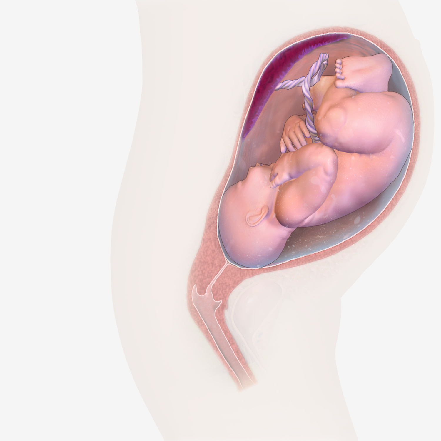 Pregnancy. See a full animation of this medical topic. Annotations removed, background "ghosted" - for use with Template:Annotated image 4 (or similar) as background image